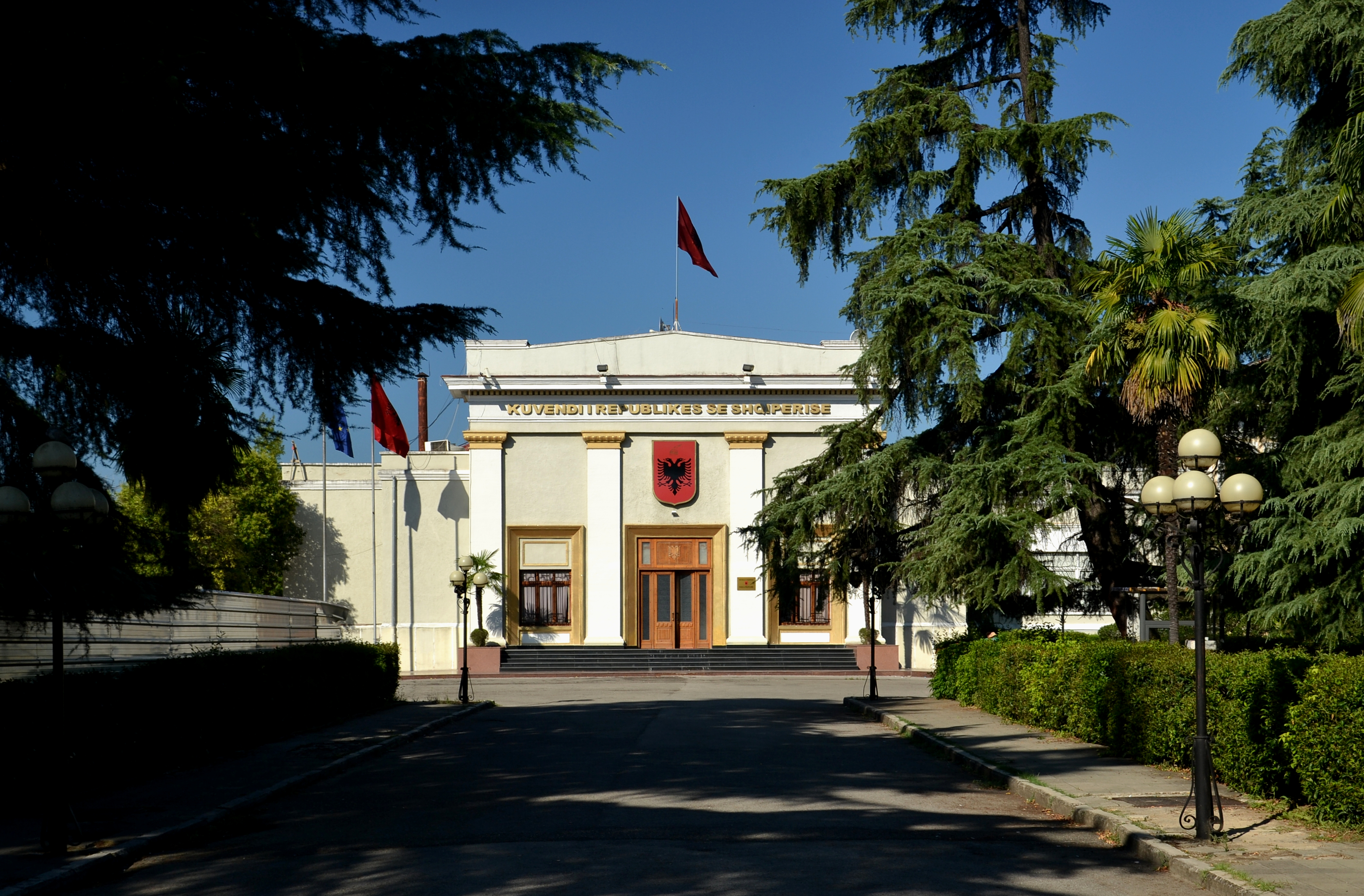 Albanian National Assembly, Tirana